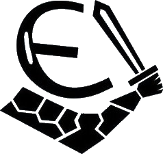 Estonian Cross of Liberty symbol